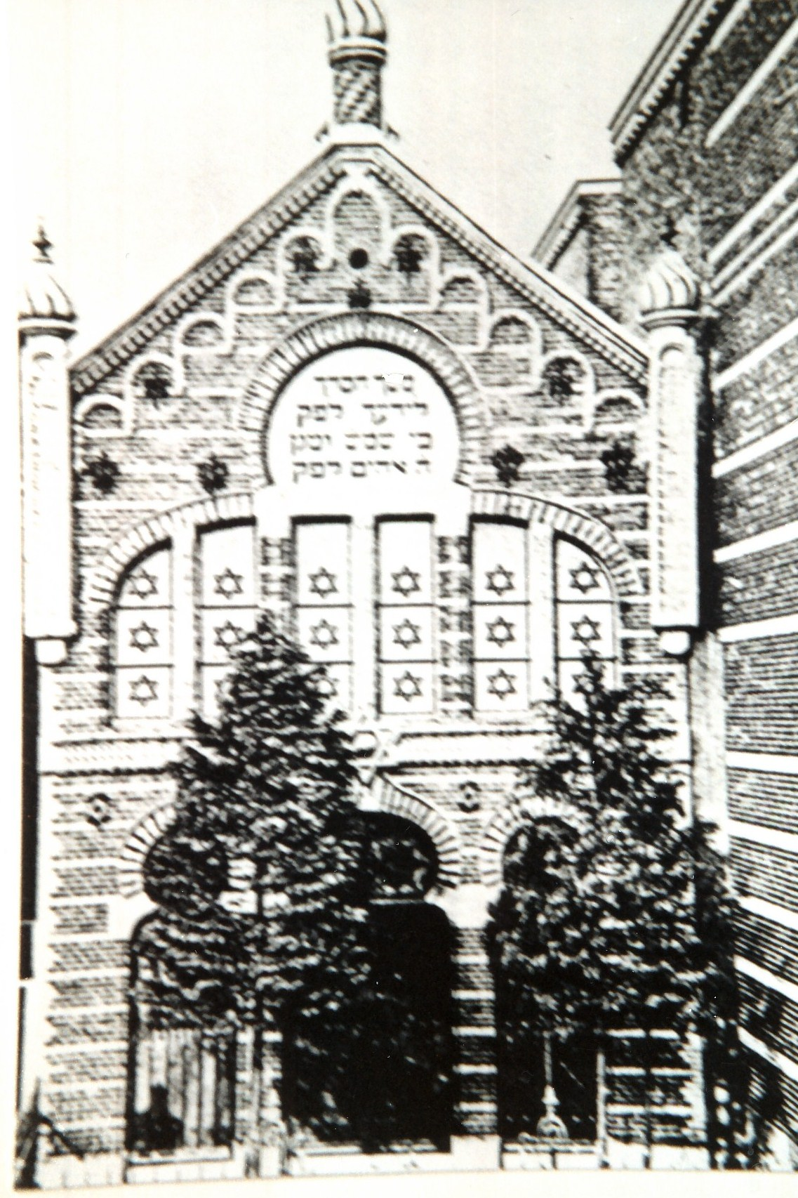 Former Synagage in Sneek (1911).